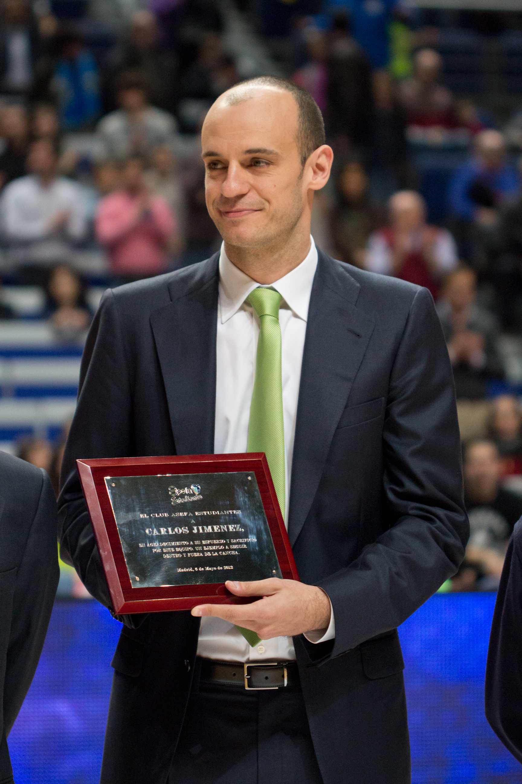 Hommage to Carlos Jiménez before the game Estudiantes vs Unicaja de Málaga.